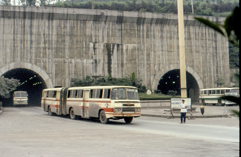 Chongqing street scene